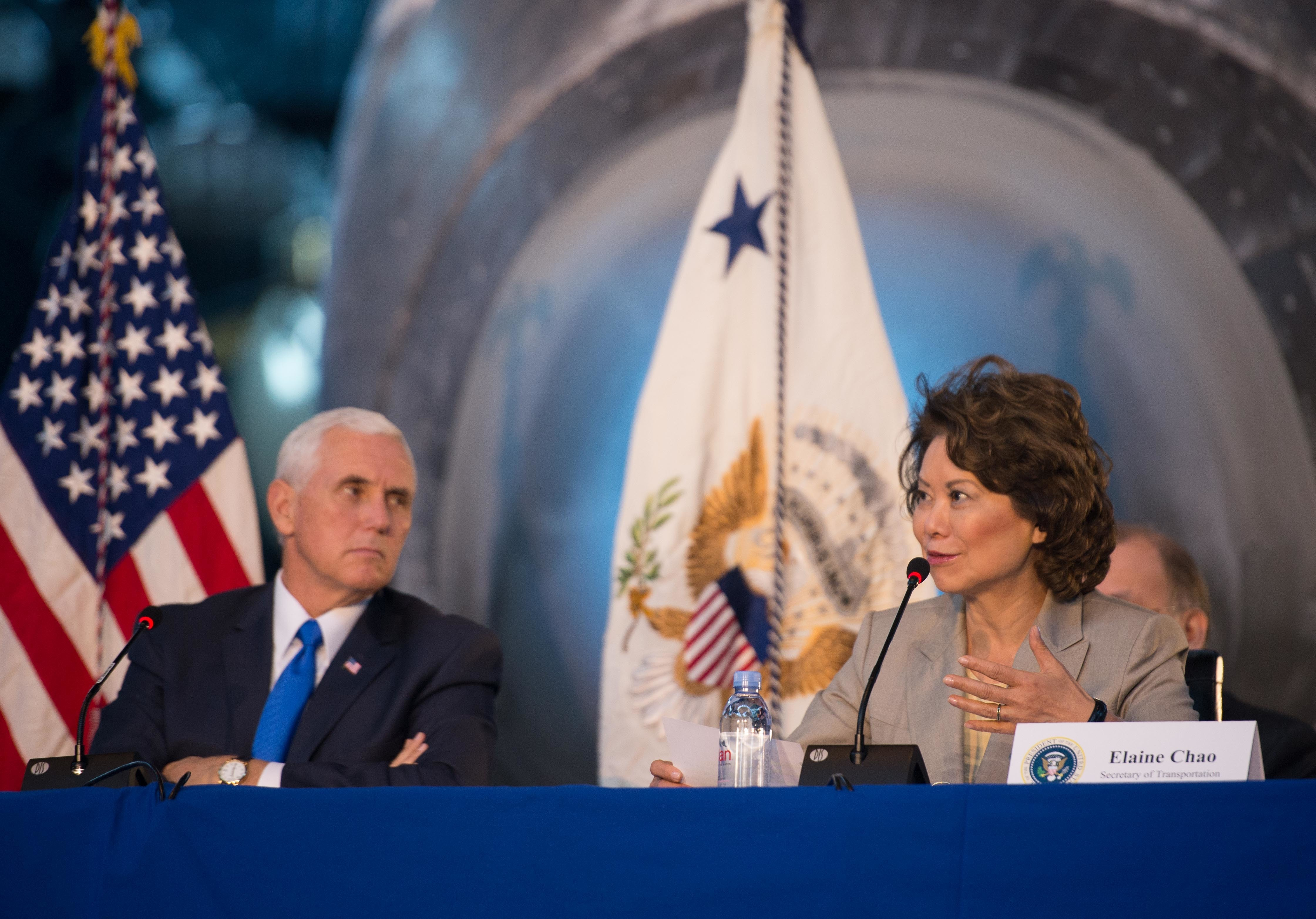 (from left) Secretary of Transportation Elaine Chao speaks during the National Space Council on “leading the next frontier” at the Udvar-Hazy National Air and Space Museum in Chantilly, Va., Oct. 5, 2017. The Council members include Vice President Mike Pence, Secretary of State Rex Tillerson, Secretary of Commerce Wilbur Ross, Secretary of Transportation Elaine Chao, Acting Secretary of Homeland Security Elaine Duke, the Director of the Office of Management and Budget Mick Mulvaney, the Director of National Intelligence Daniel Coates, the Assistant to the President for National Security Affairs H.R. McMaster, the Assistant to the President for Homeland Security and Counterterrorism Tom Bossert, the Deputy Secretary of Defense Pat Shanahan, the Acting Administrator of the National Aeronautics and Space Administration Robert Lightfoot, the Vice Chairman of the Joint Chiefs of Staff, Air Force Gen. Paul J. Selva, and the Deputy Chief Technology Officer of the United States Michael Kratsios. (DoD Photo by Army Sgt. Amber I. Smith)